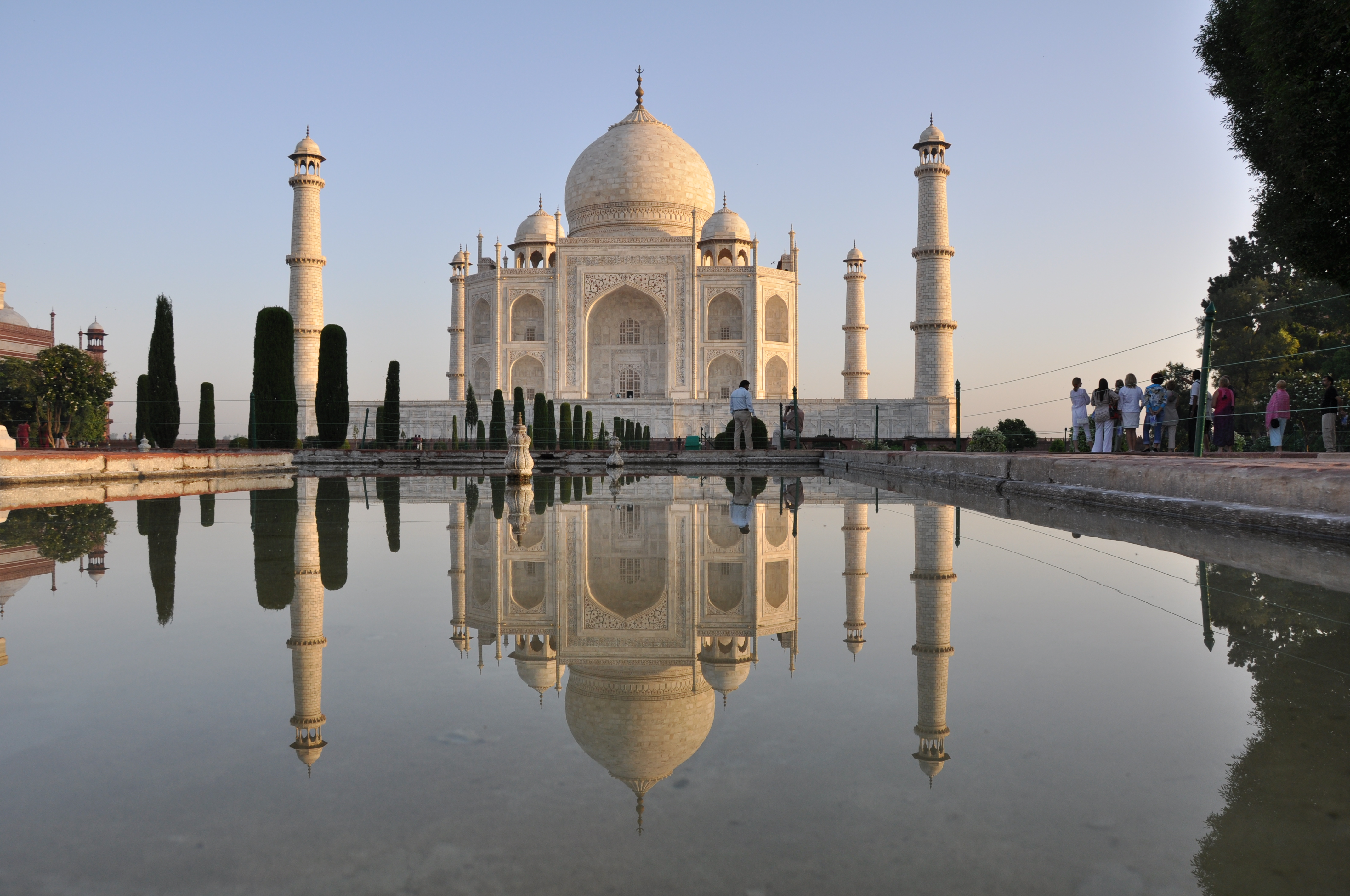 Taj Mahal with reflection in the morning light.